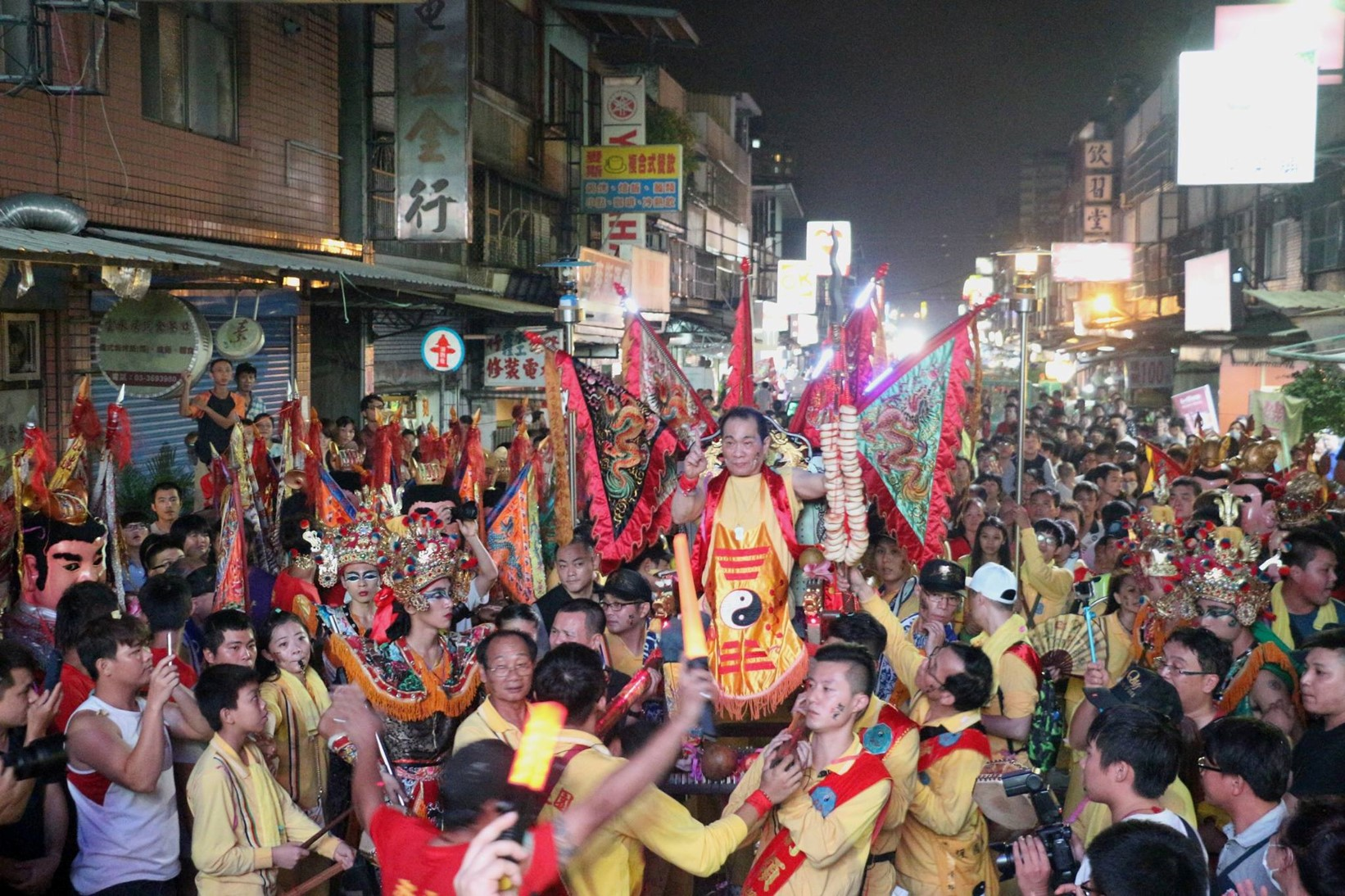 “be loyal to your country and be filial to your parents.”